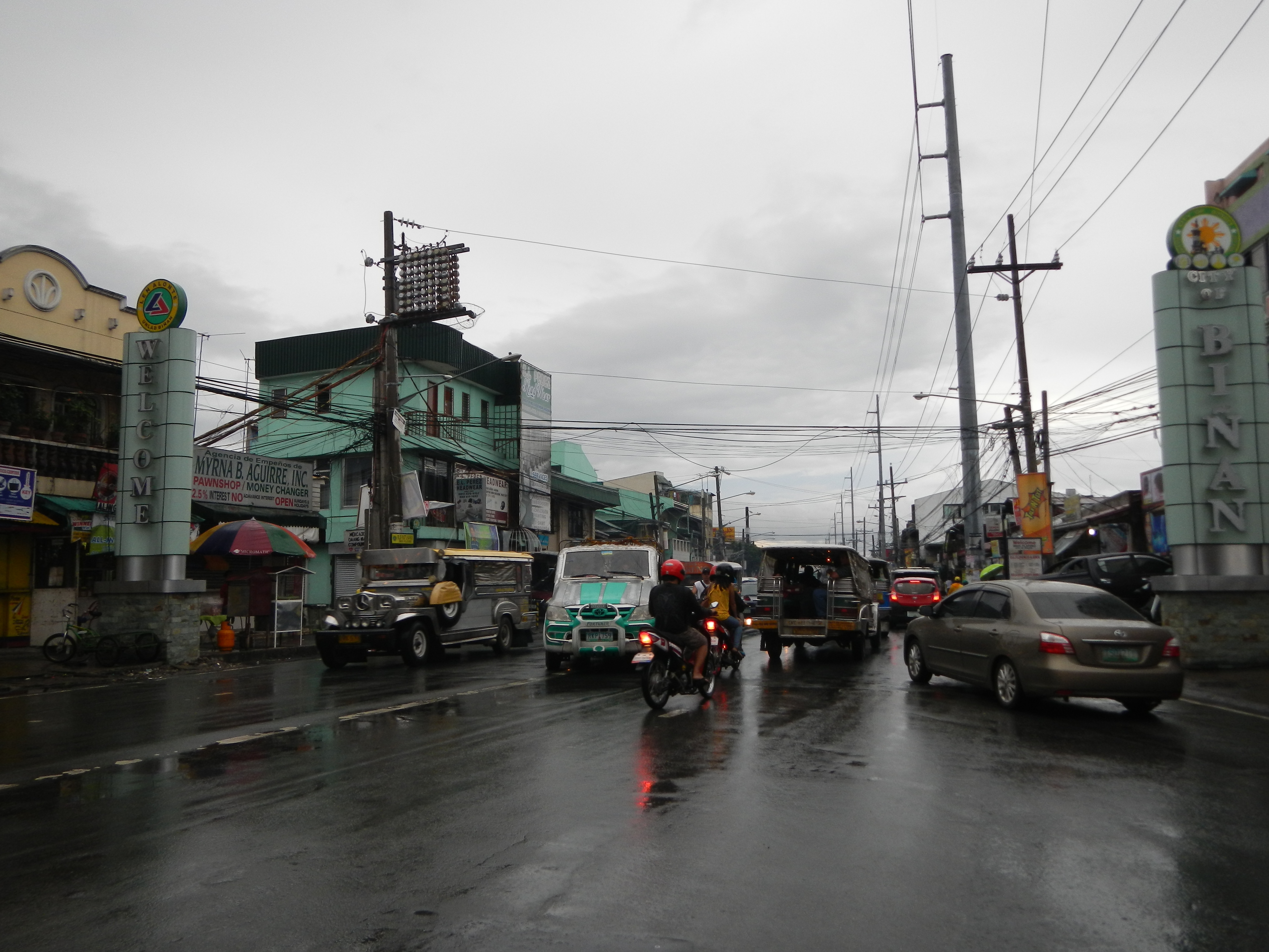 UploadWizard photos --- (general description) of (landmarks, heritage, culture, comprehensive, photography) of – Biñan, Laguna [1] the- San Isidro Labrador Parish Church of Biñan - located at the downtown city plaza of Barangay Poblacion. Biñan .[2] Coordinates: 14°20'17"N 121°5'2"E - belongs to the Roman Catholic Diocese of San Pablo [3] -- Episcopal District I [4] 4024 Laguna, Philippines Feast day: May 15 Parish Priest: Father Luis A. Tolentino, VFParochial Vicar: Father Lauro A. Ramos III icar Forane: Father Luis A. Tolentino Vicariate of San Isidro Labrador Episcopal Vicar: Msgr. Jose D. Barrion, PC Vicariate of Vicar Forane: Father Mario P. Rivera) and the Welcome arch of Santa Rosa and Biñan, Laguna.